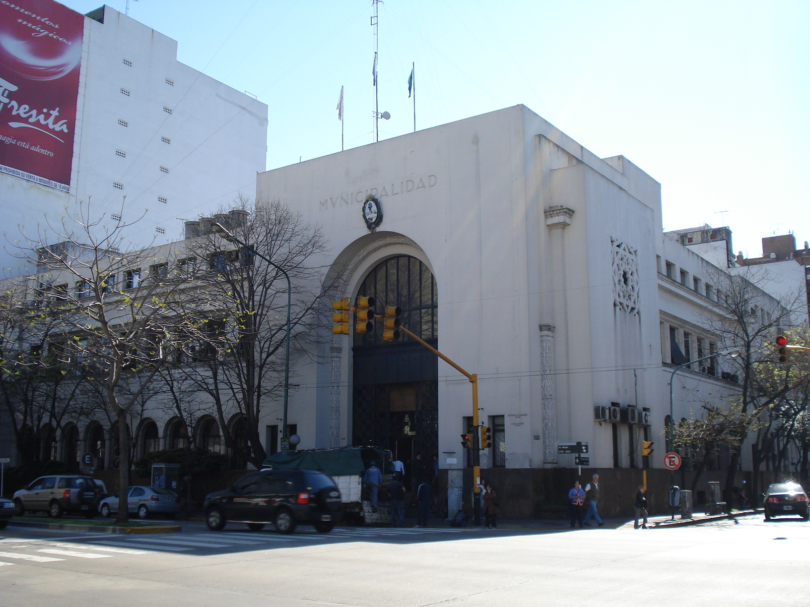 View of the building of the Municipality of Vicente López, Argentina.